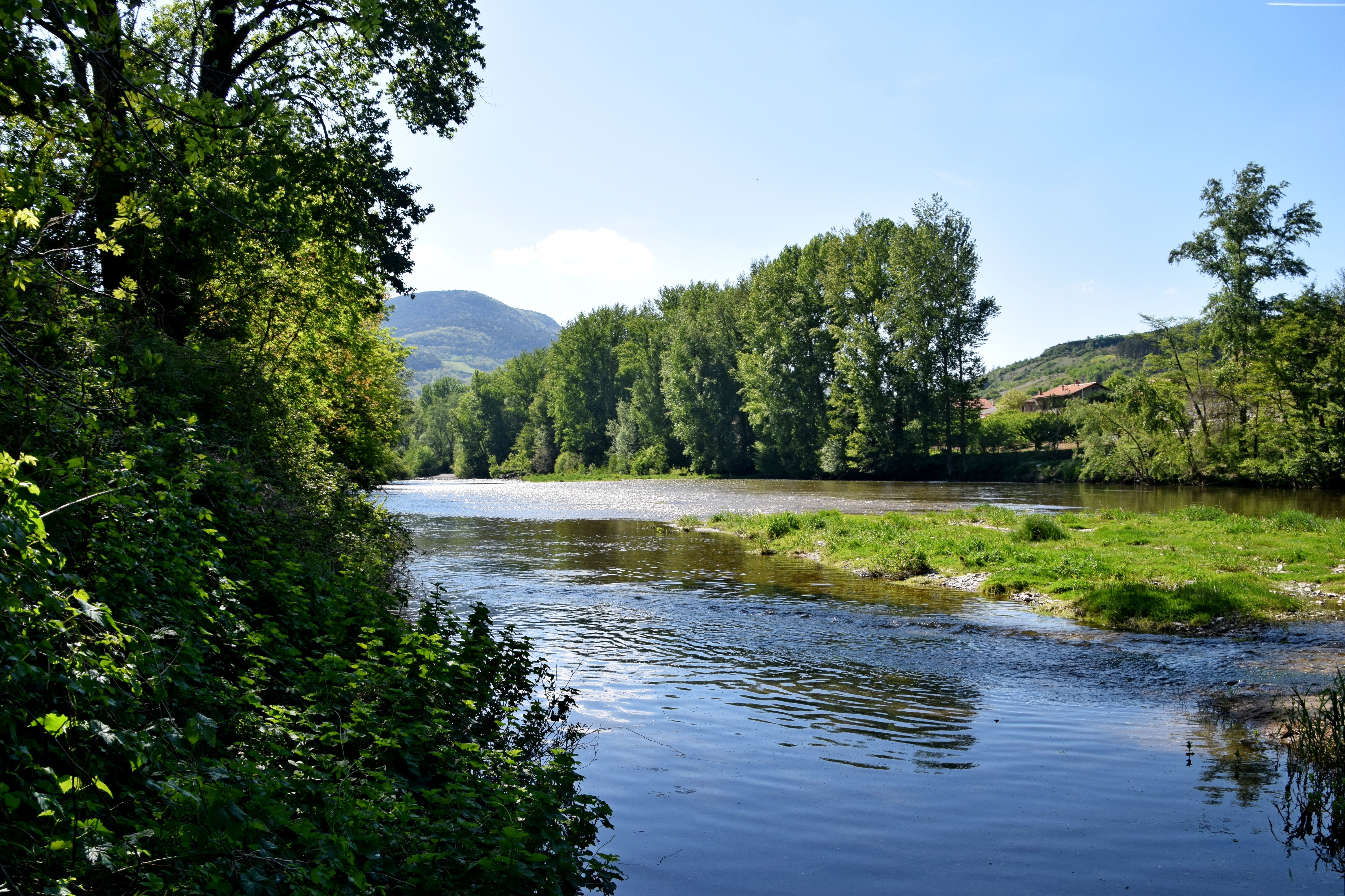 Tarn River in Rivière-sur-Tarn, Aveyron, France